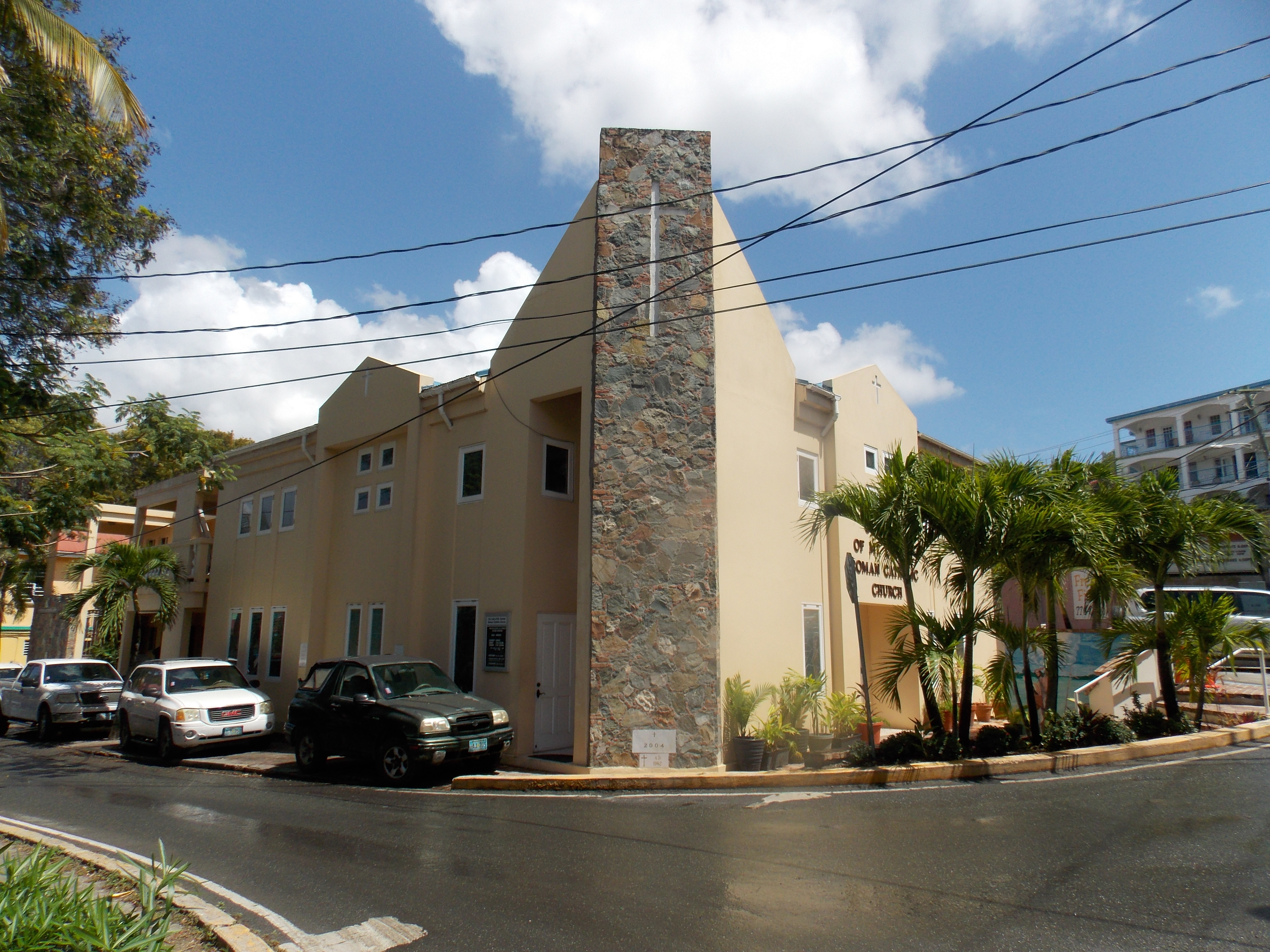 Our Lady of Mount Carmel Catholic Church in Cruz Bay on the island of St. John in the United States Virgin Islands